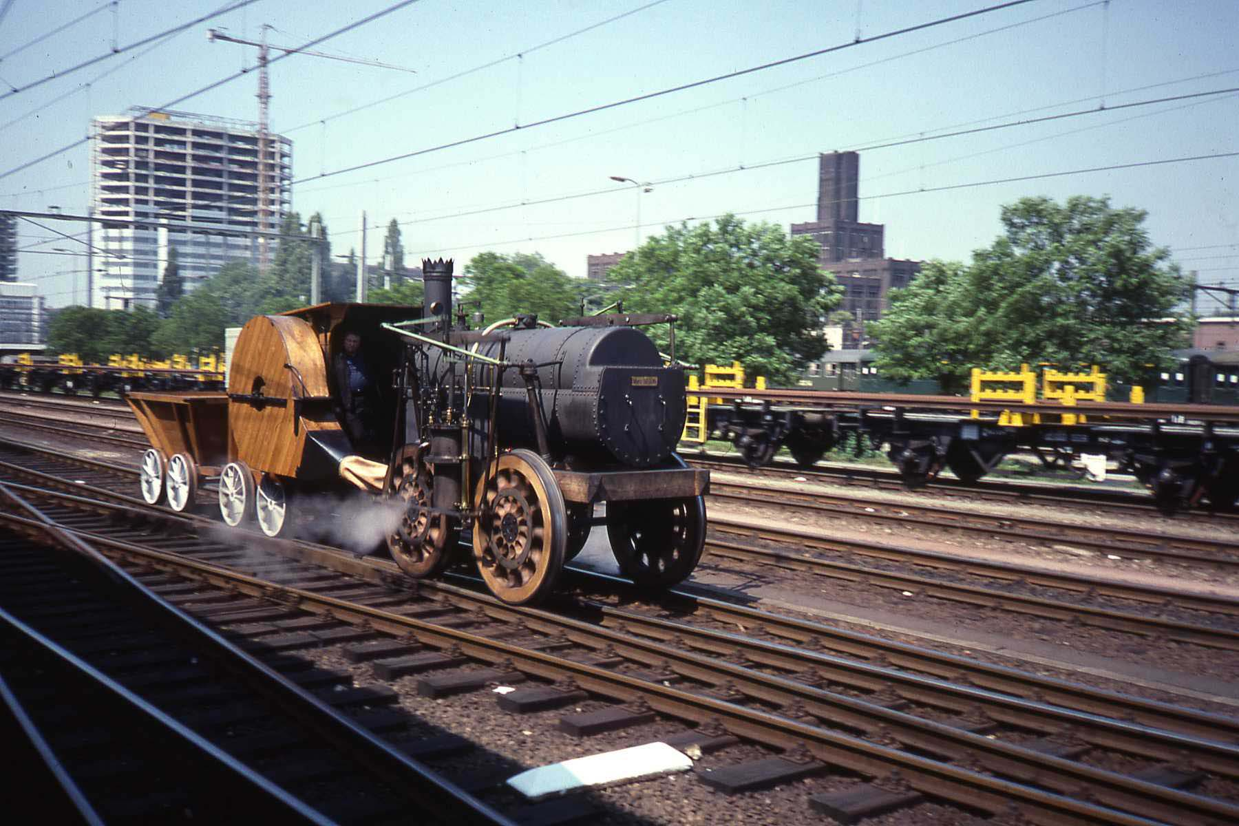 Replica steamengine ("Marc Seguin") during the celebration of 150 years of the railways in the Netherlands in Utrecht.